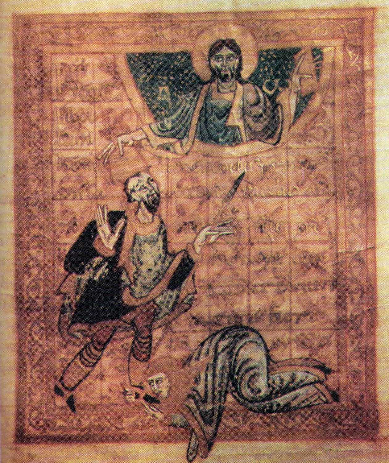 Emma of Bohemia and Saint Wenceslaus.